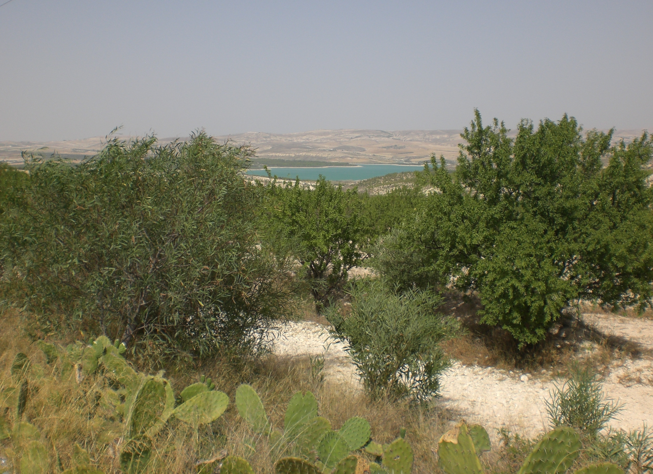 Siliana Barrage